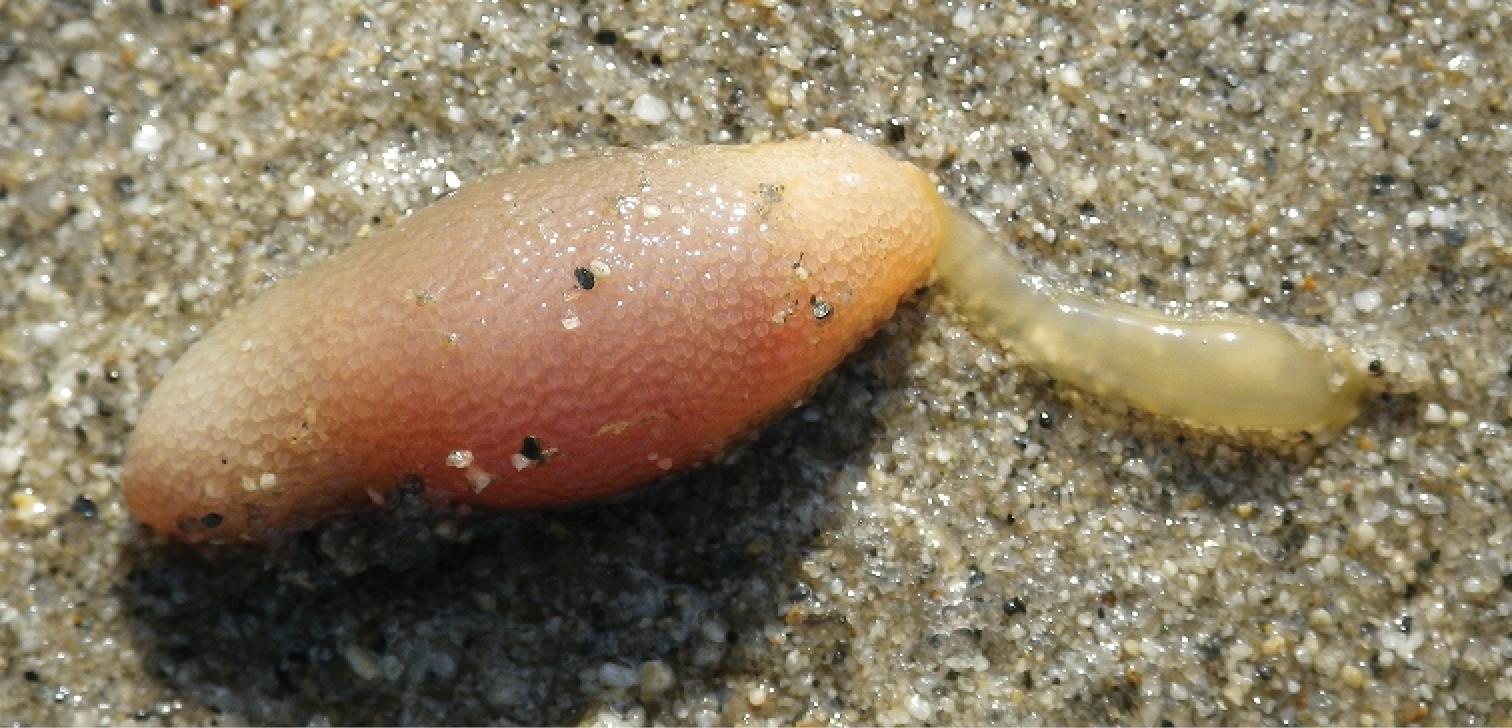 Arhynchite hayaoi, found at the type locality, with the proboscis extending toward the right.